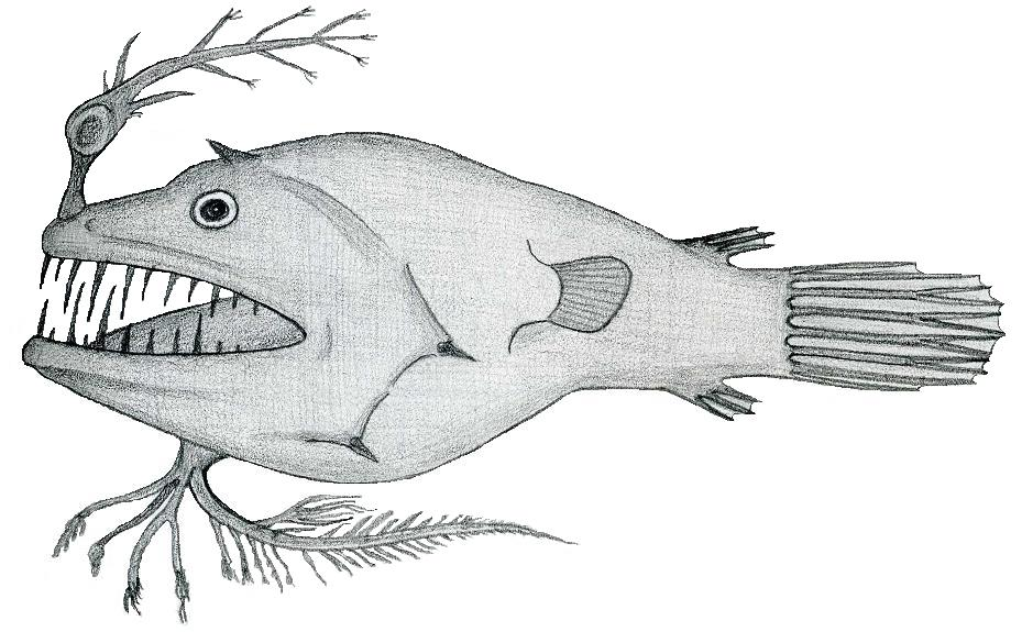 Linophryne pennibarbata Illustrated by Ray Simpson